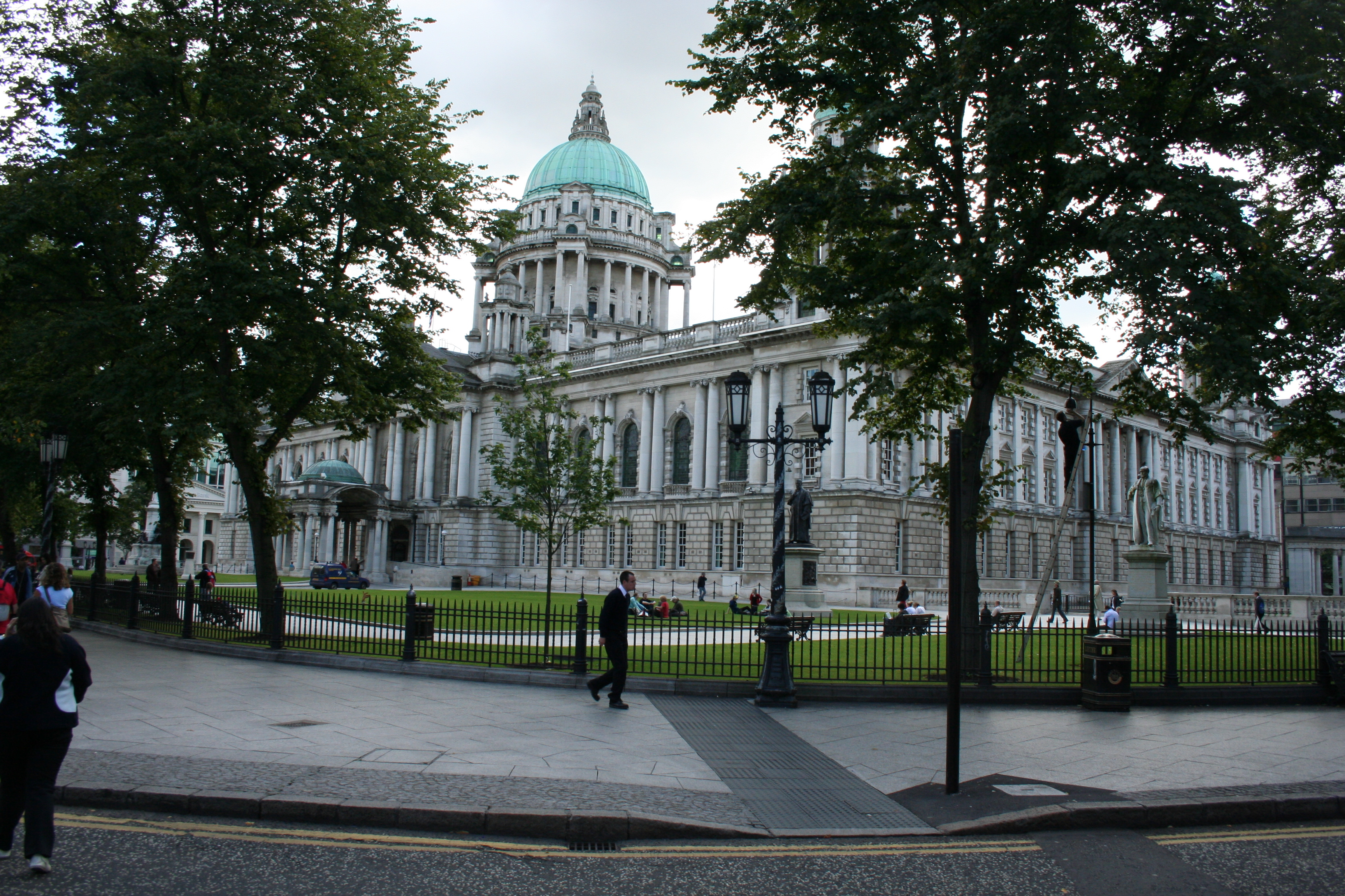 Image of Belfast City Hall Credit: A Peter Clarke image